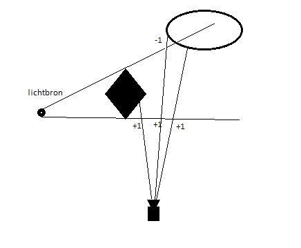 diagram of depth pass shadow volume algoritm